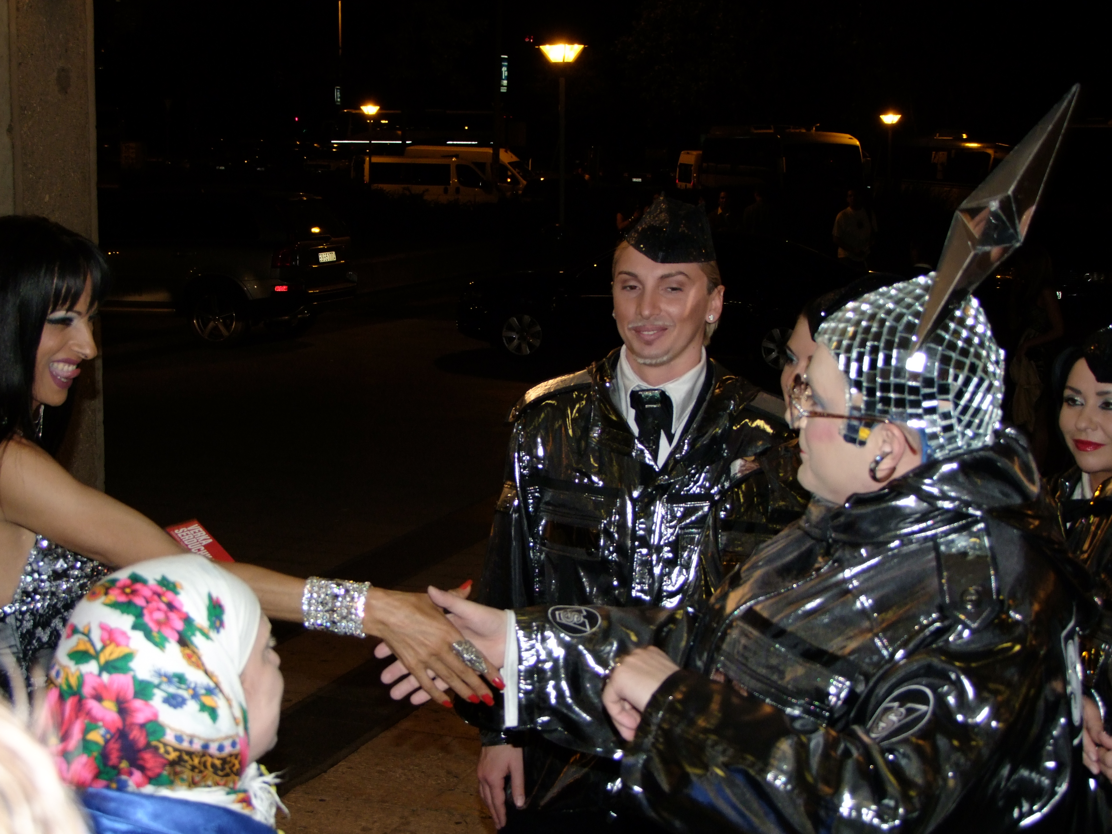 Dana International meets Verka Serduchka on a party in Belgrade, May 2008